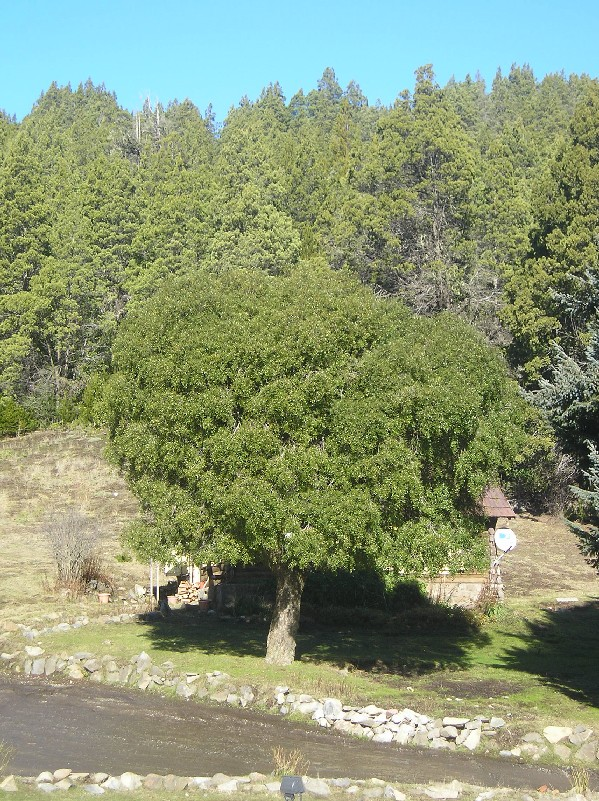 Name Maytenus boaria (Maitén) Family Celastraceae Año: 2006 Autor: Pepe Robles Permiso: own work